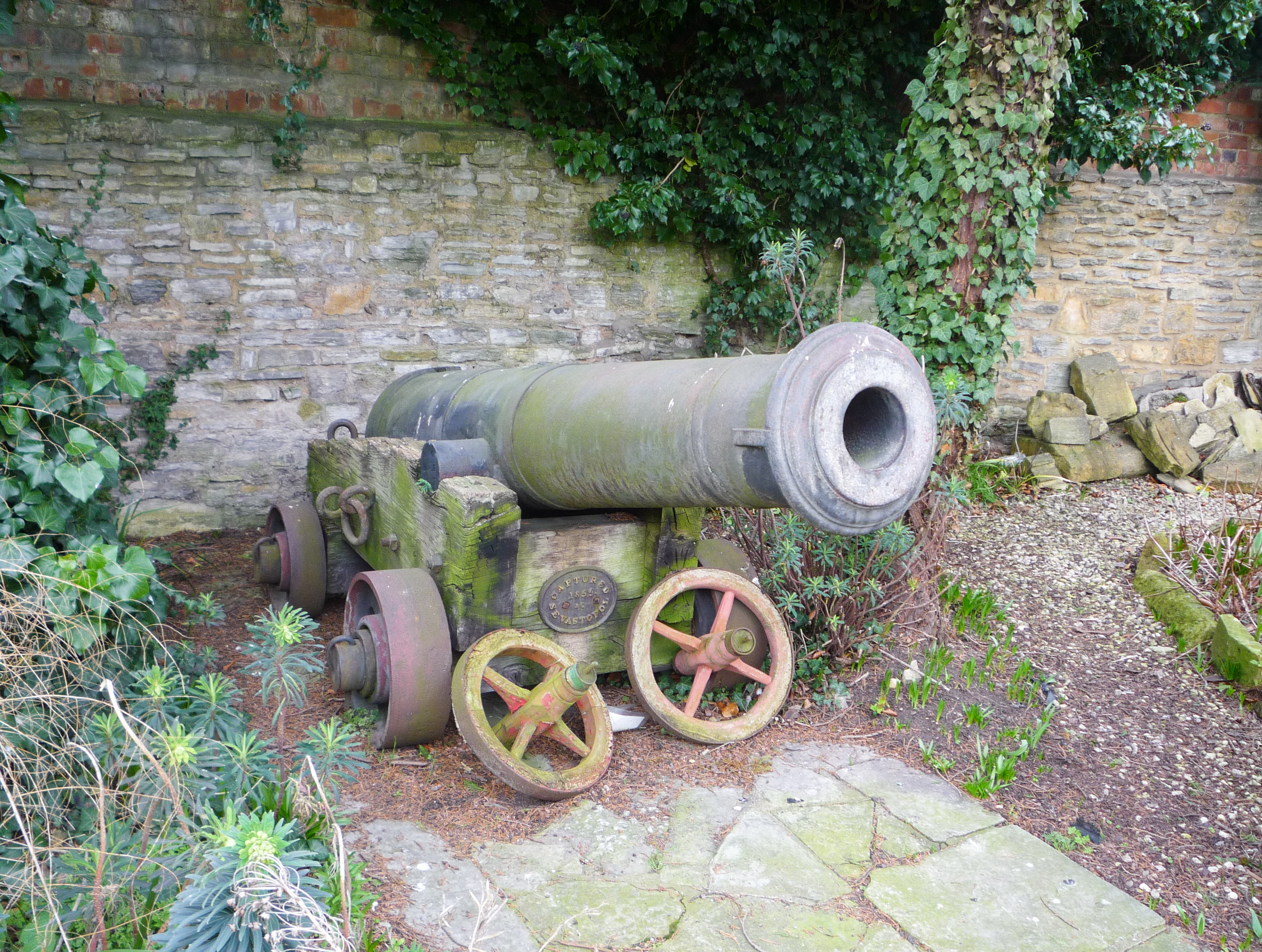 Cannon captured during the Battle of Sevastopol (Crimean War) in 1855 and later given by Queen Victoria to the town of Evesham. Now housed in the Almonry Museum and Heritage Centre, Evesham, Worcestershire.